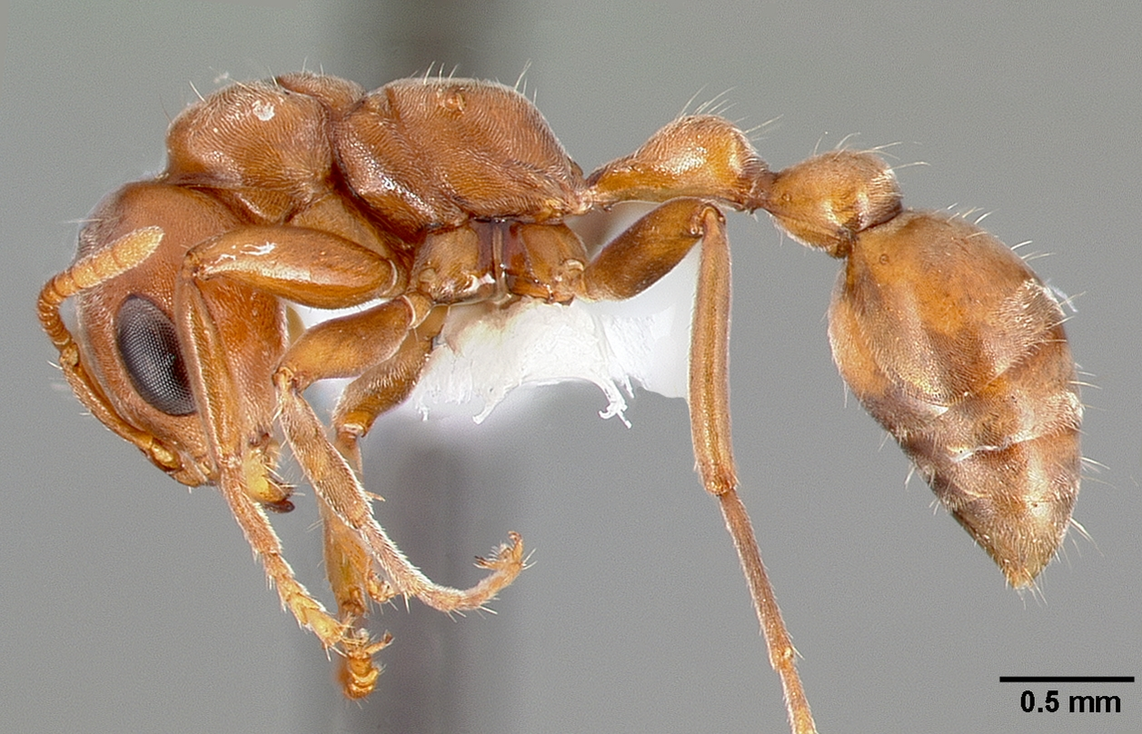 Profile view of ant Pseudomyrmex spinicola specimen casent0005800.